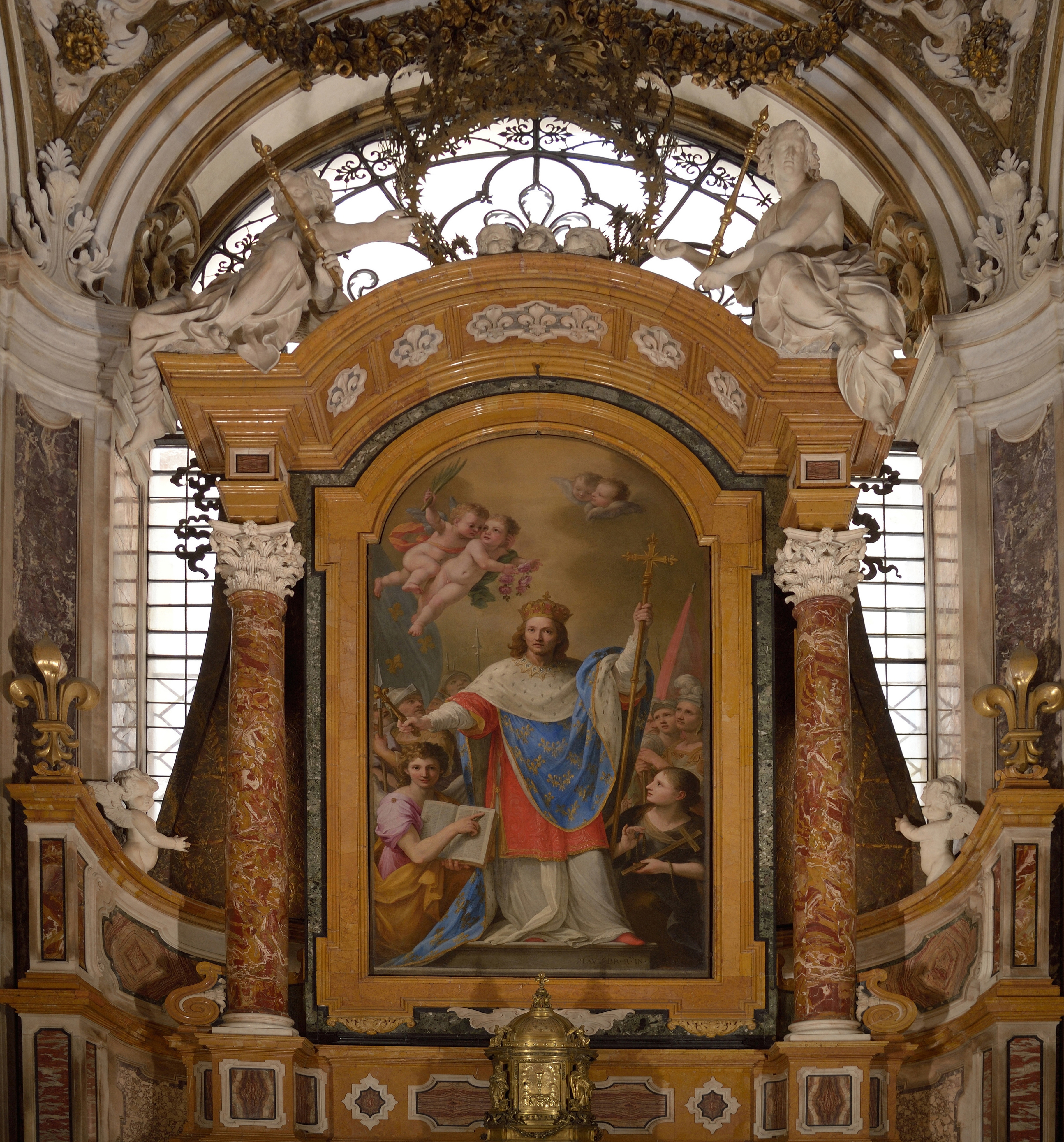 Altar of St Louis in the Church of St. Louis of France